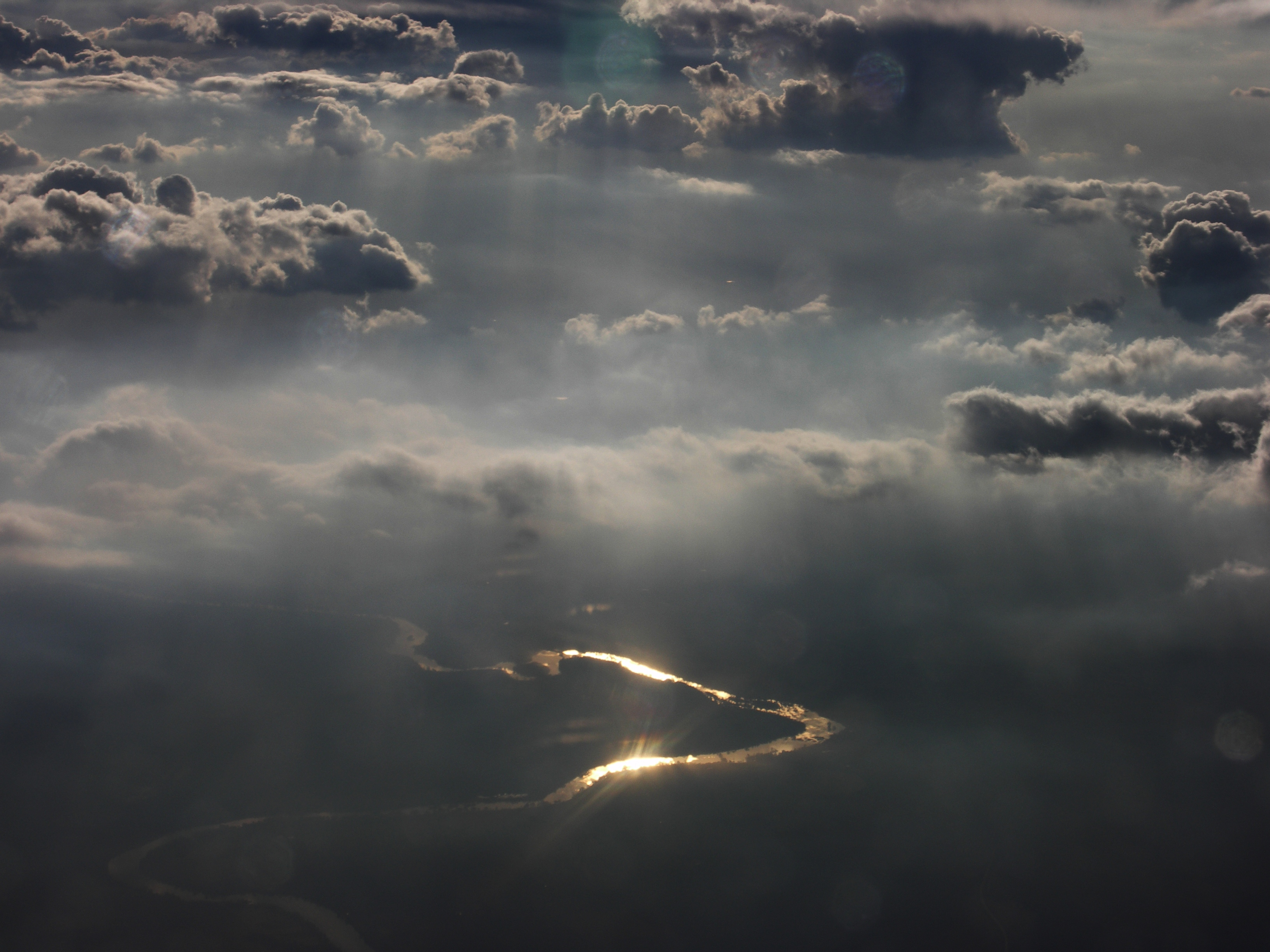 Clouds over the Vaal River, at the tripoint of North West, Gauteng and Free State provinces, South Africa Oh dear, no photoshop. I'll just have to suffice with what I can find. :D I think thats the Vaal river down there. The clouds were quite spectacular on the approach to Johannesburg.